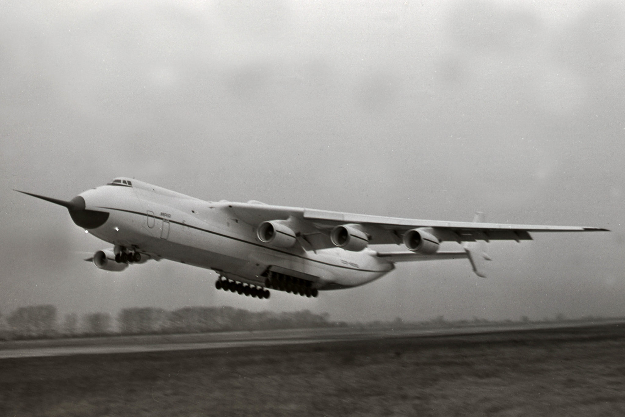 Antonov An-225 Mriya supposedly first flight, 21 Dec 1988.